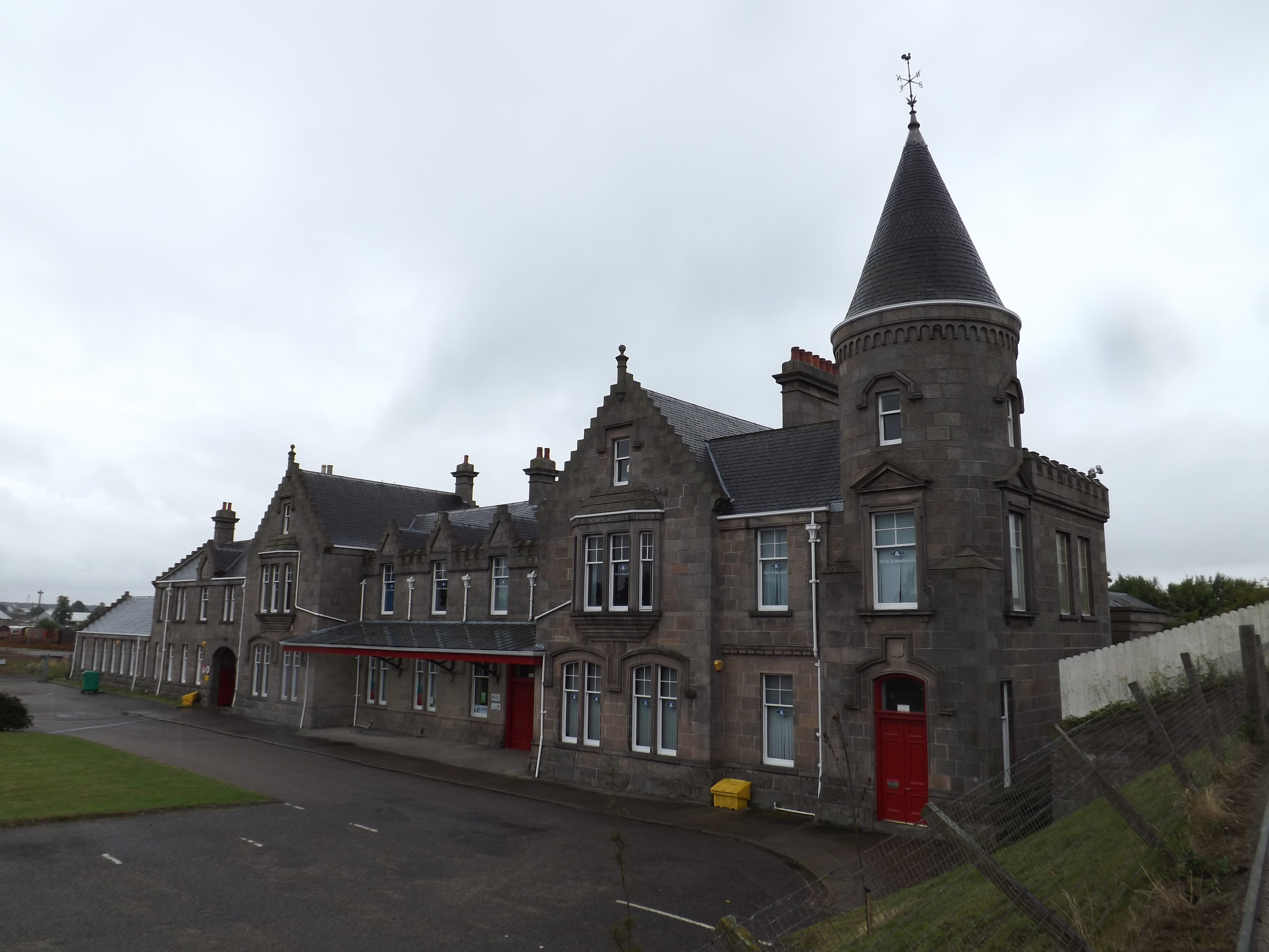 The former Great North of Scotland's Elgin railway station was rebuilt in 1902 and is a Category B listed building. The building is current used for other purposes.